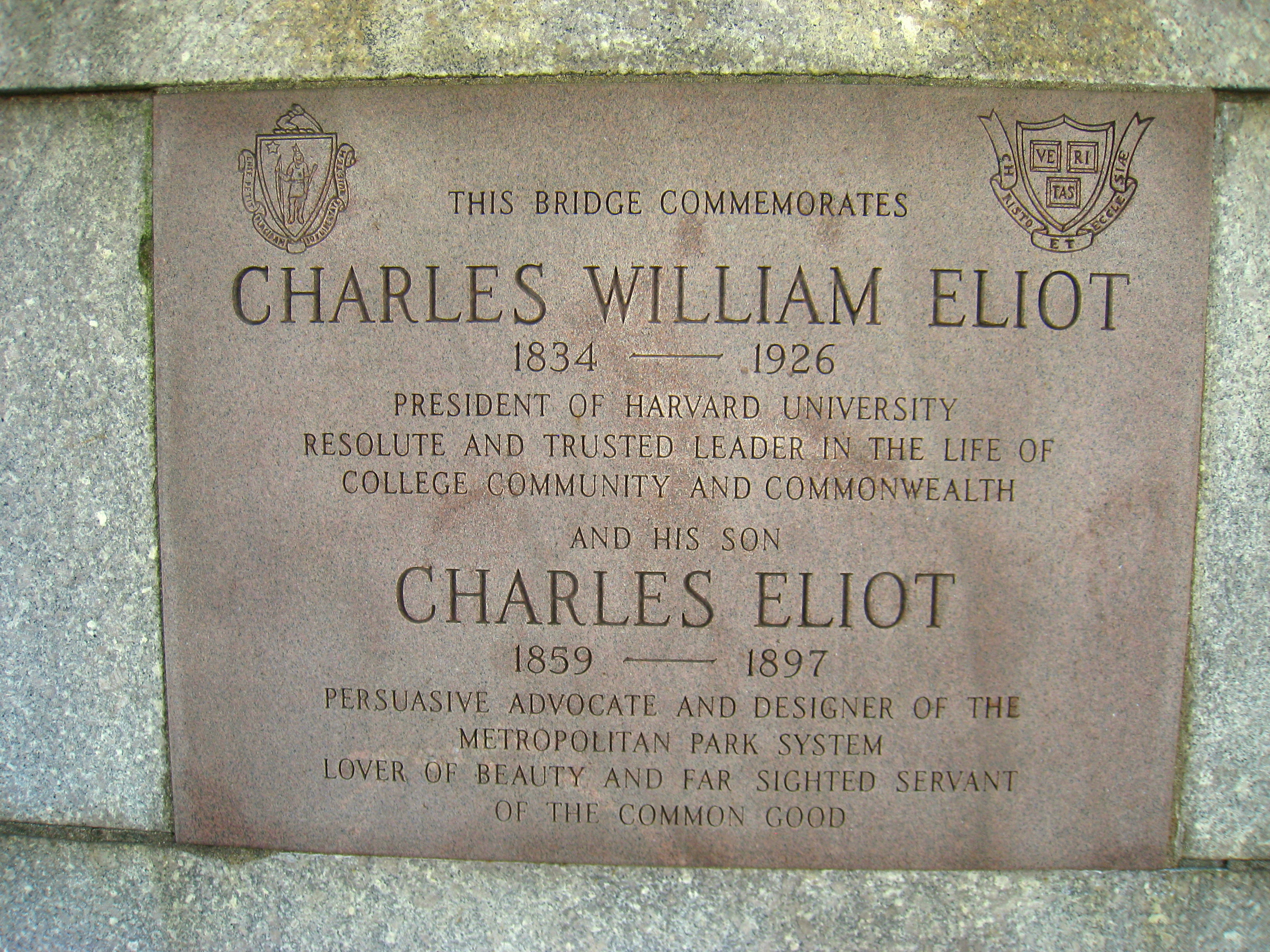 Eliot Bridge over the Charles River, Cambridge, Massachusetts, USA.